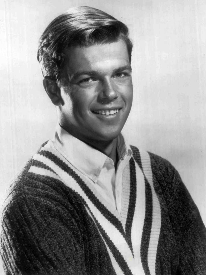 Photo of Robert Logan from the television program 77 Sunset Strip. Logan played J.R. Hale, who became the parking lot attendant after "Kookie" joined the staff as an investigator.